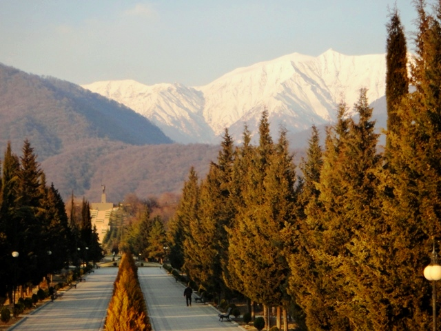 Central Park in Balaken town, Azerbaijan.